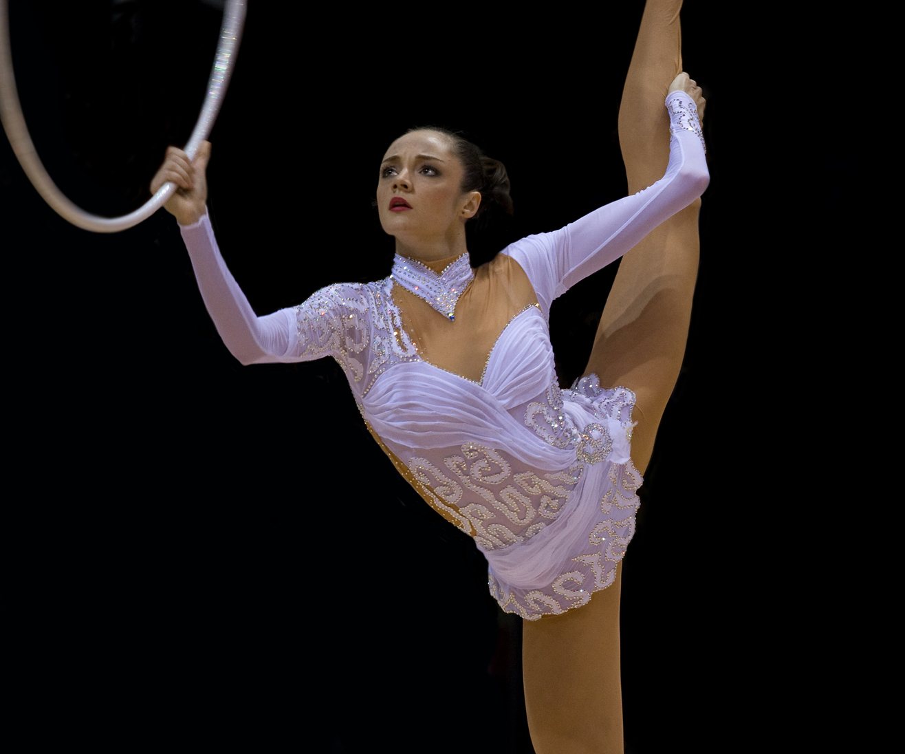 VII World Cup Finals RG (Benidorm ESP)